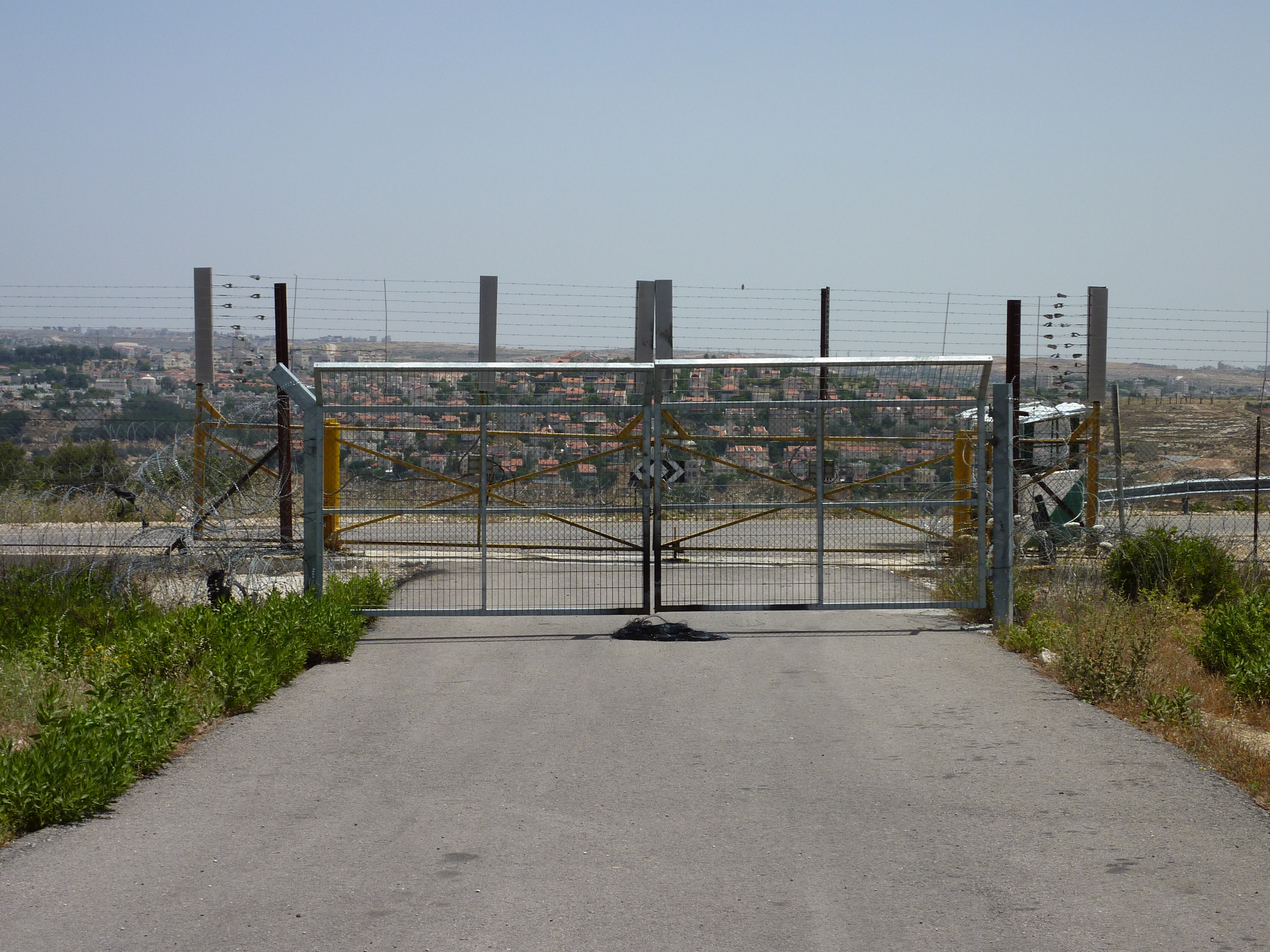 Agricultural gate in the Israeli-built separation wall, Beit Ijza, West Bank. In the background one sees the villas of Giv'at Ze'ev settlement.